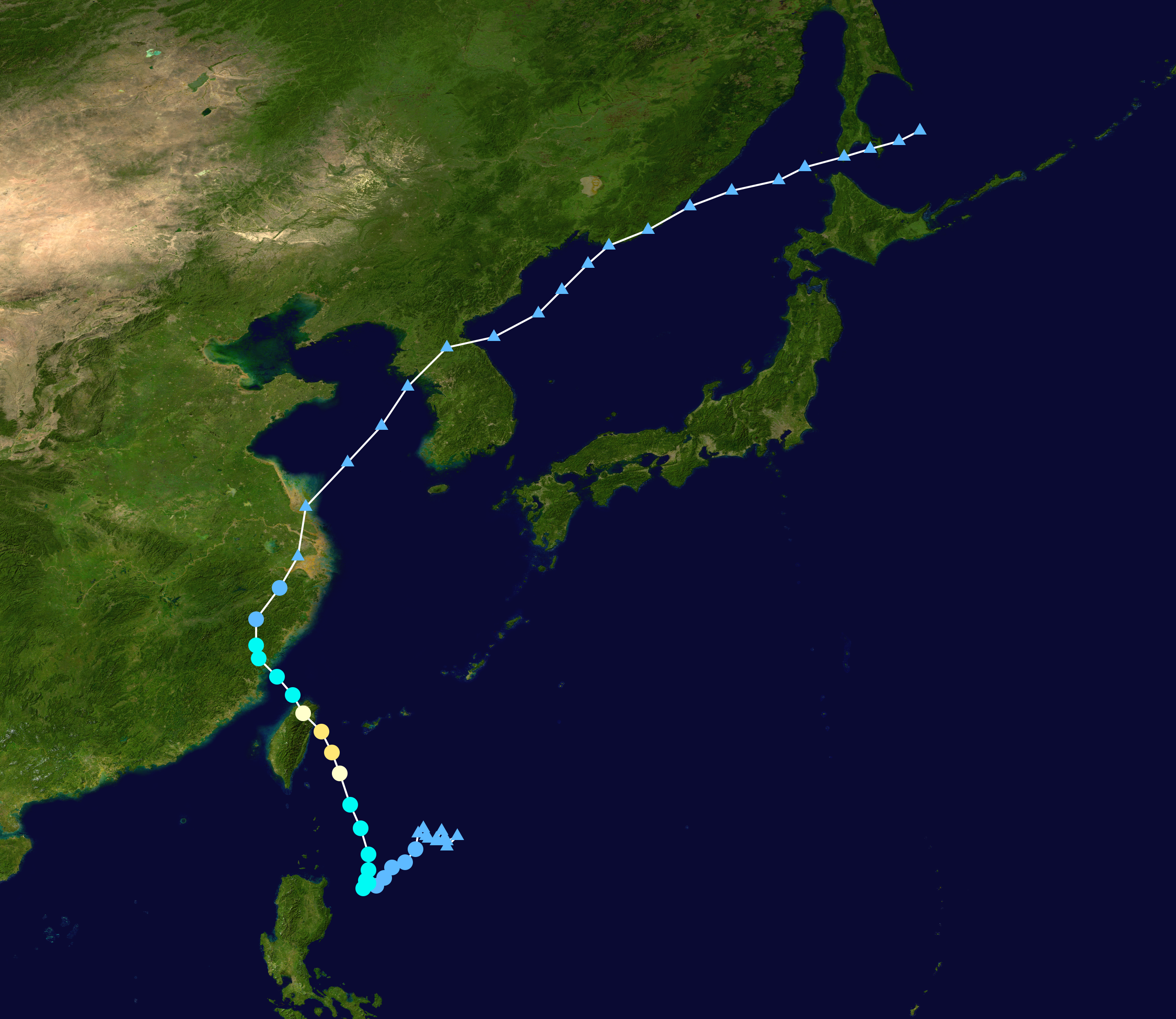 Track map of Typhoon Kalmaegi of the 2008 Pacific typhoon season. The points show the location of the storm at 6-hour intervals. The colour represents the storm's maximum sustained wind speeds as classified in the Saffir–Simpson scale (see below), and the shape of the data points represent the nature of the storm, according to the legend below. Saffir–Simpson scale Tropical depression≤38 mph≤62 km/h Category 3111–129 mph178–208 km/h Tropical storm39–73 mph63–118 km/h Category 4130–156 mph209–251 km/h Category 174–95 mph119–153 km/h Category 5≥157 mph≥252 km/h Category 296–110 mph154–177 km/h Unknown Storm type Tropical cyclone Subtropical cyclone Extratropical cyclone / Remnant low / Tropical disturbance / Monsoon depression